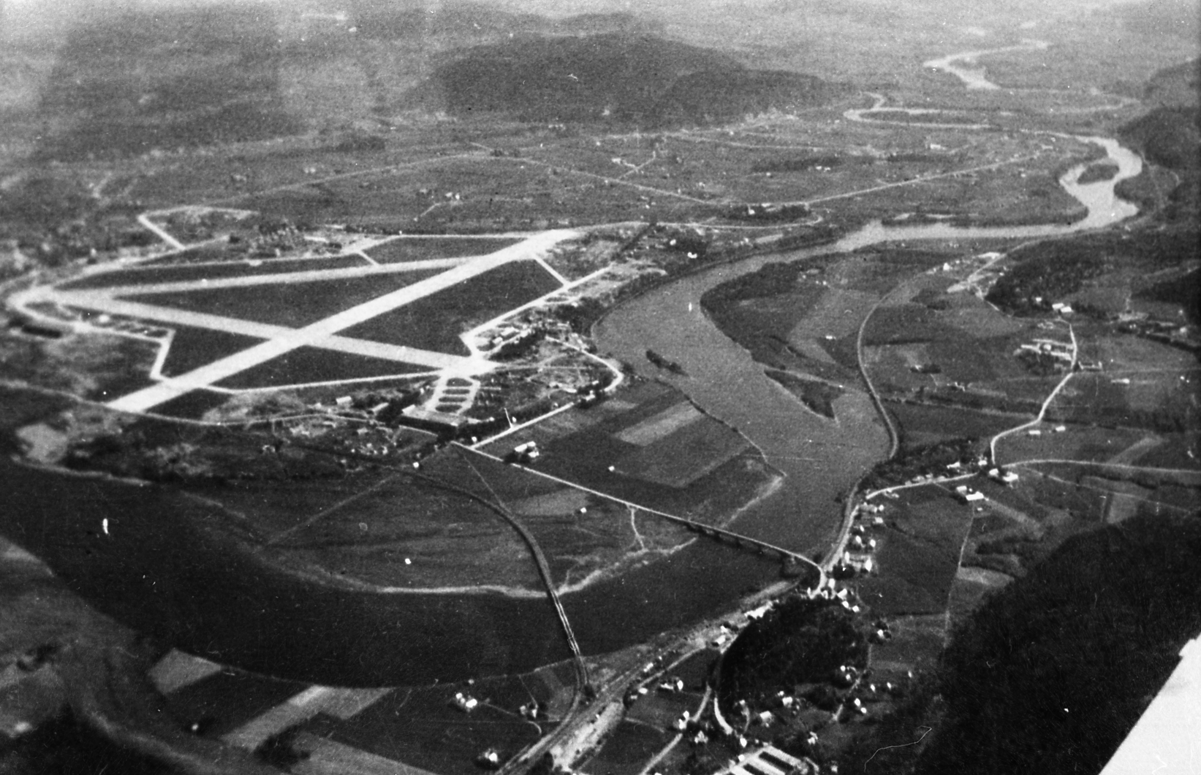 Format: 35 mm sort/hvitt negativ (avfotografert fotopositiv) Film: Ilford FP3 Fine Grain Panchromatic Dato / Date: ca. 1925 Fotograf / Photographer: " Oskar A Johansen (avfotograferingen) Sted / Place: Værnes, Nord-Trøndelag Wikipedia (bokmål): Trondheim lufthavn, Værnes Wikipedia (English): Trondheim Airport, Værnes Eier / Owner Institution: Trondheim byarkiv, The Municipal Archives of Trondheim Arkivreferanse / Archive reference: F21113 Merknad: Fra fotograf Oskar A. Johansens fotosamling.